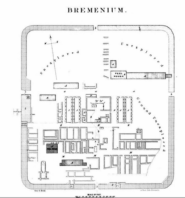 Plan of Bremenium' from 1902. It was an ancient Roman fort located at High Rochester, Northumberland, England. The fort was one of the defensive structures built along Dere Street, a Roman road running from York to Corbridge and onwards to Melrose.